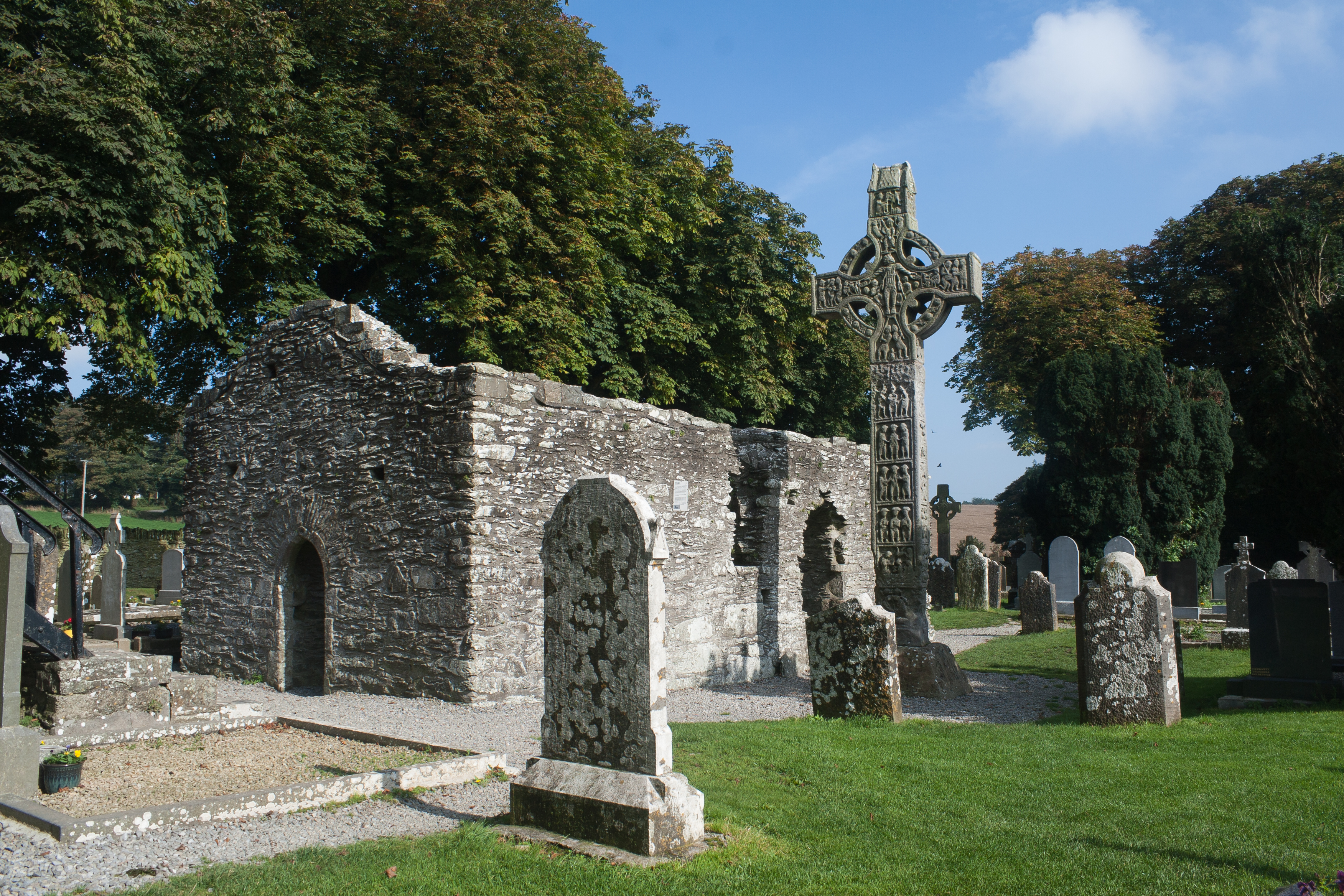 South-west view of the north church along with the west face of the west cross. This is part of the ensemble that is protected as national monument #94 in state care.